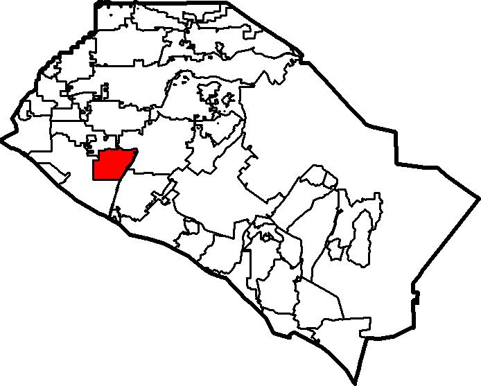 City Boundaries